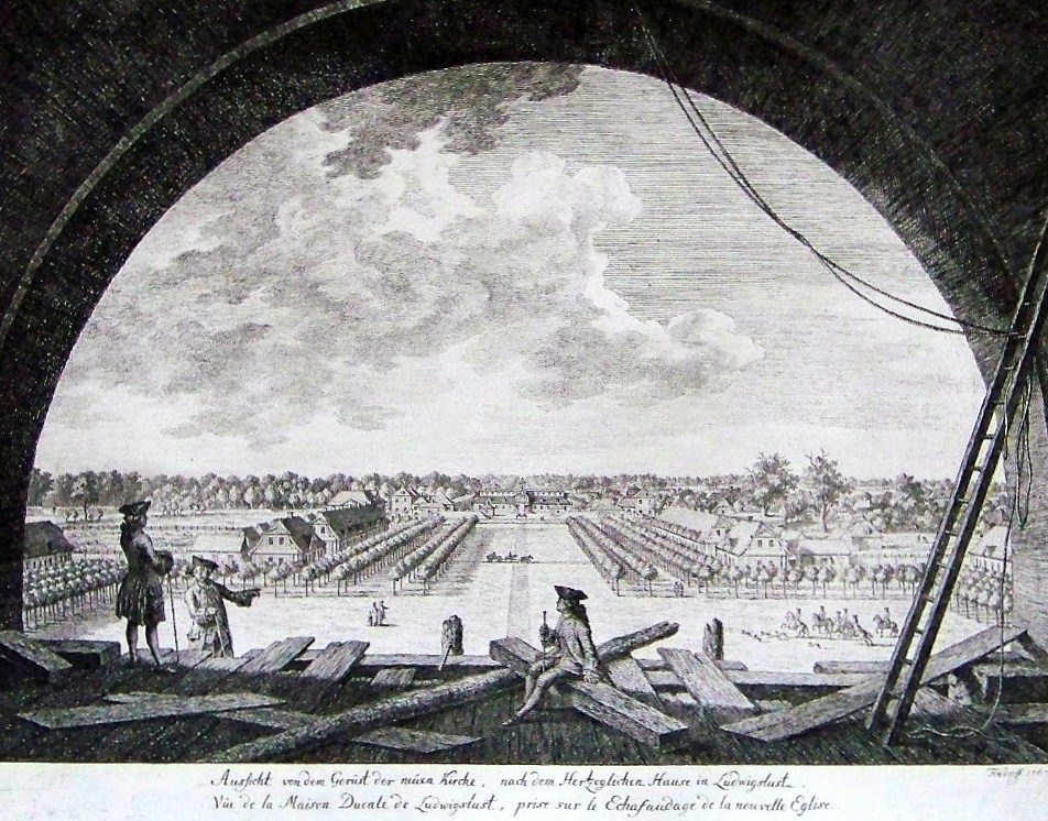 Ludwiglust by Johann Dietrich Findorff